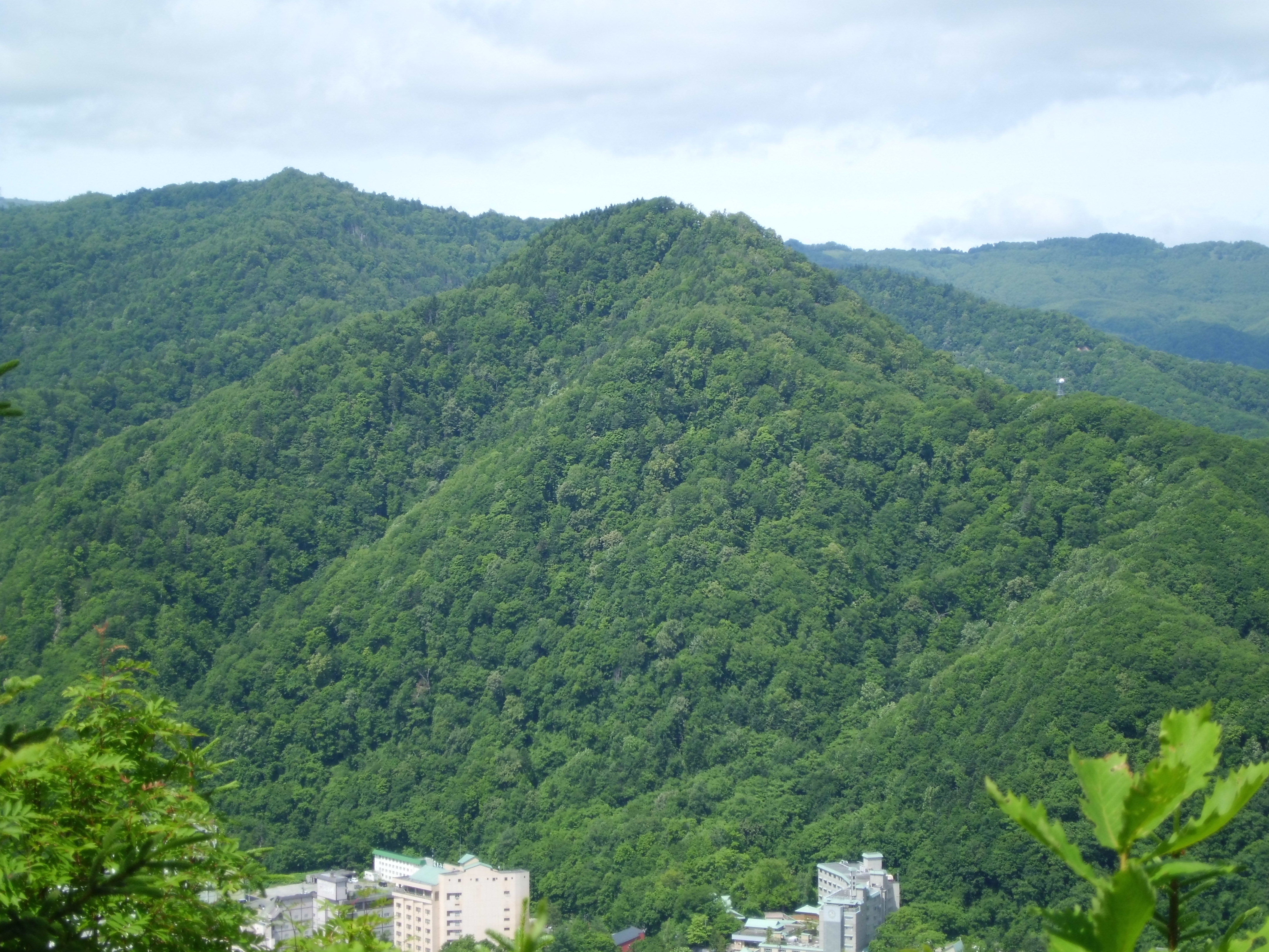 Mount Asahi of Jozankei